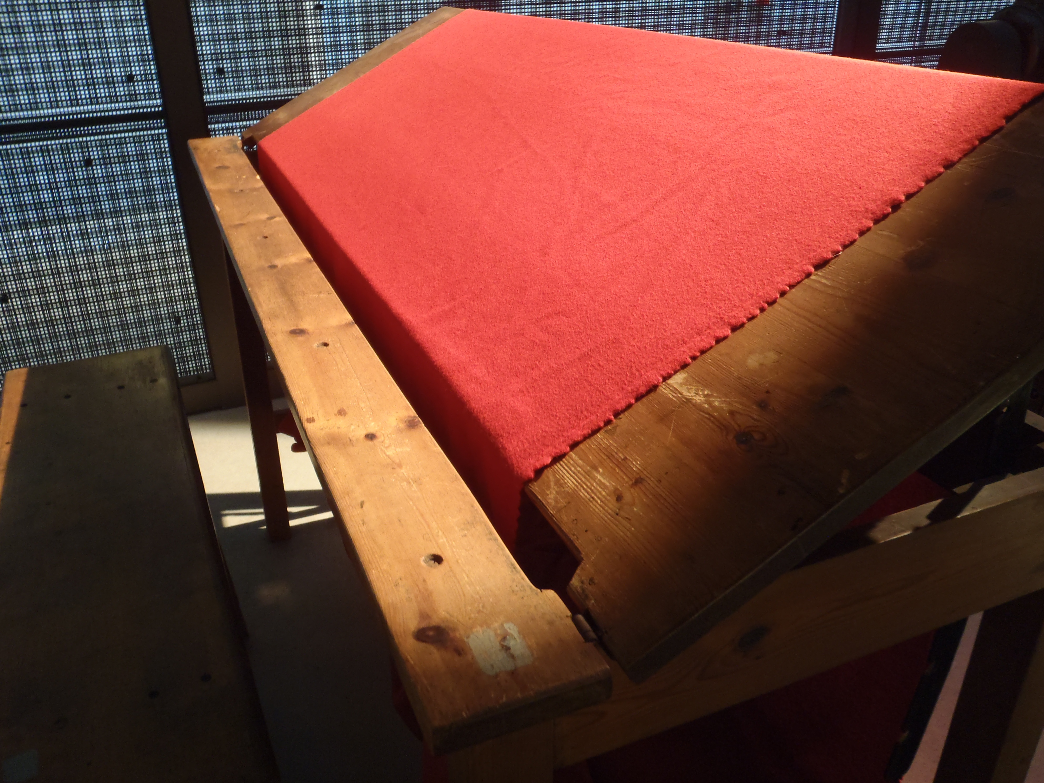 Burling table. Exhibited at the museum in Brede, Lyngby, Denmark.